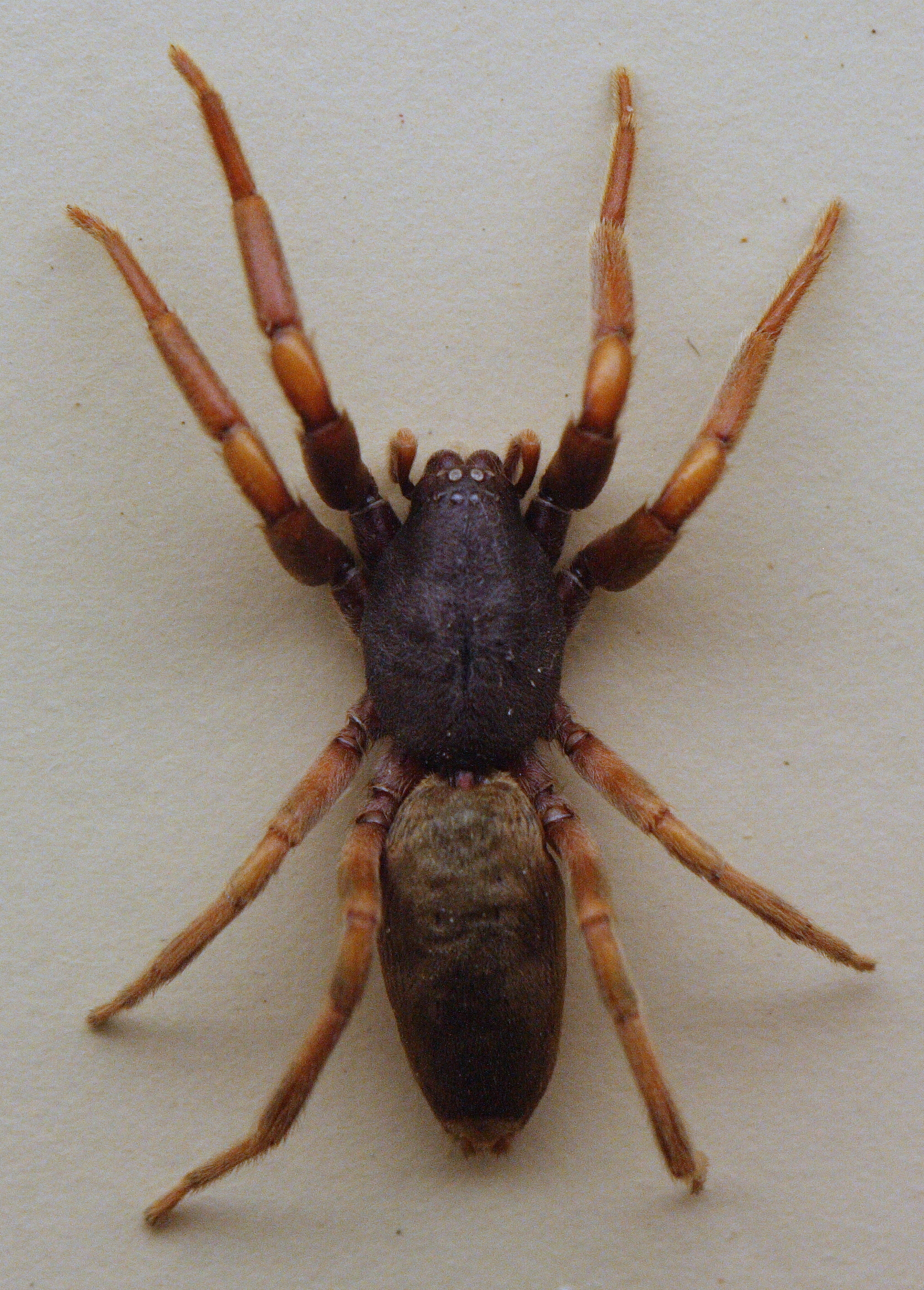 Specimen in the Australian Museum spider display.